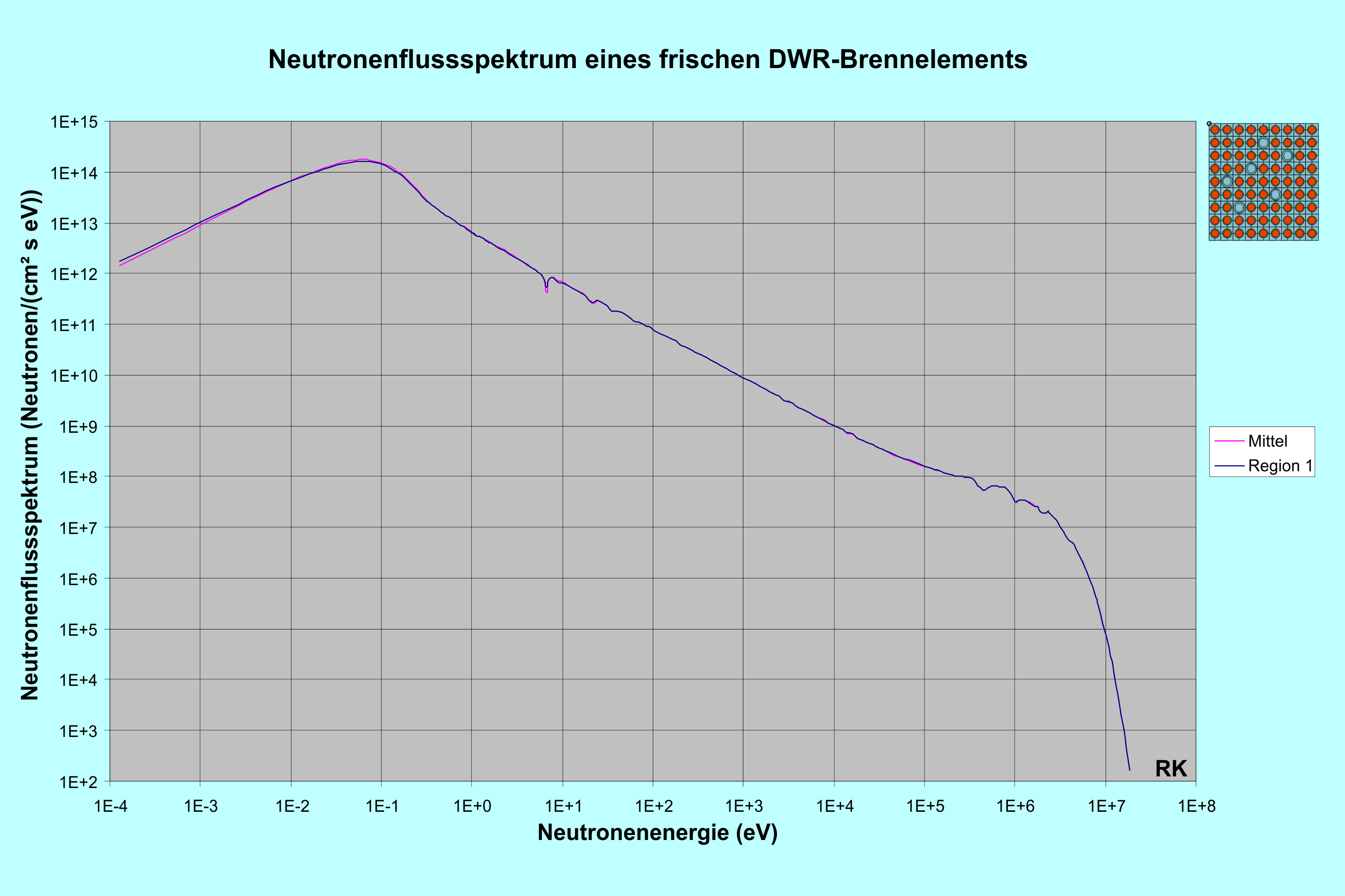 Neutron flux spectrum of the fuel assembly of a pressurized water reactor in double logarithmic representation. The discretization grid on which the calculation is based is shown on the top right as a thumbnail.